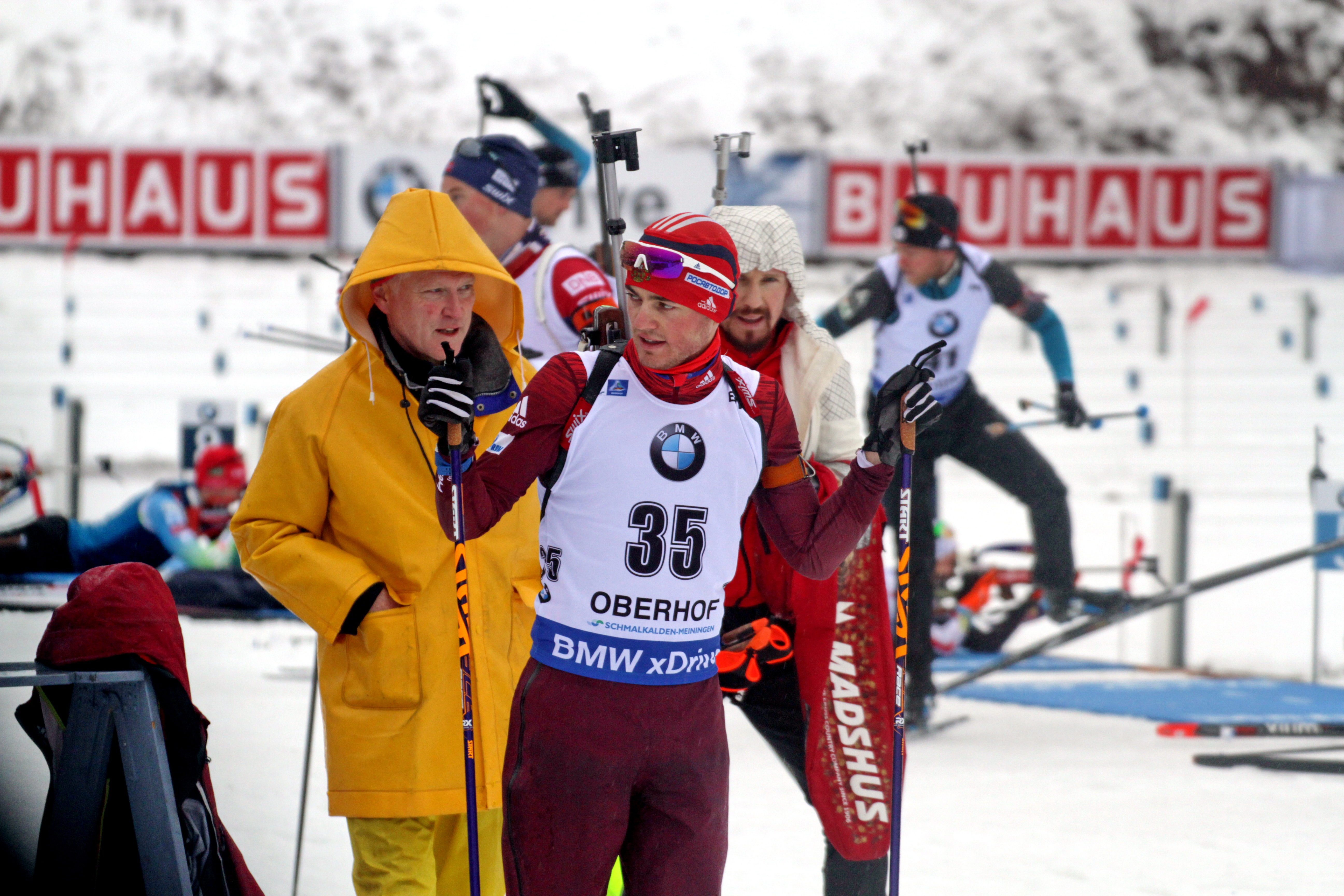 2018 Oberhof Biathlon World Cup - Sprint Men